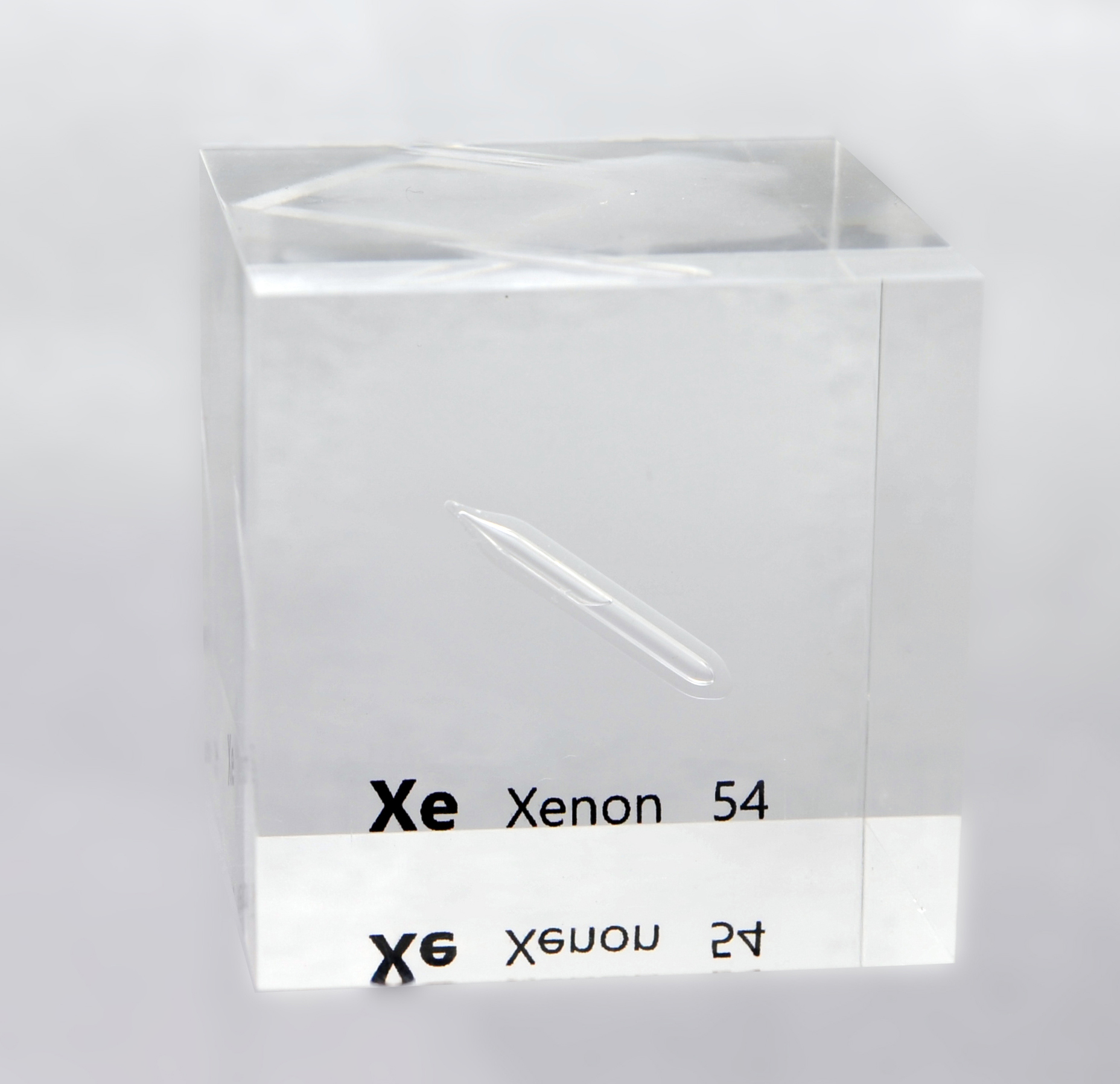 A sample of pressurized xenon gas encapsulated by Luciteria in an acrylic cube